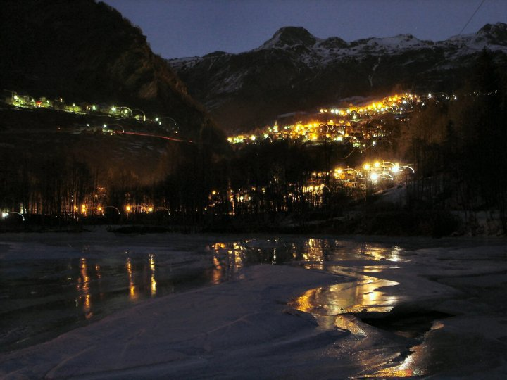 Valtournenche (Pâquier) by night.